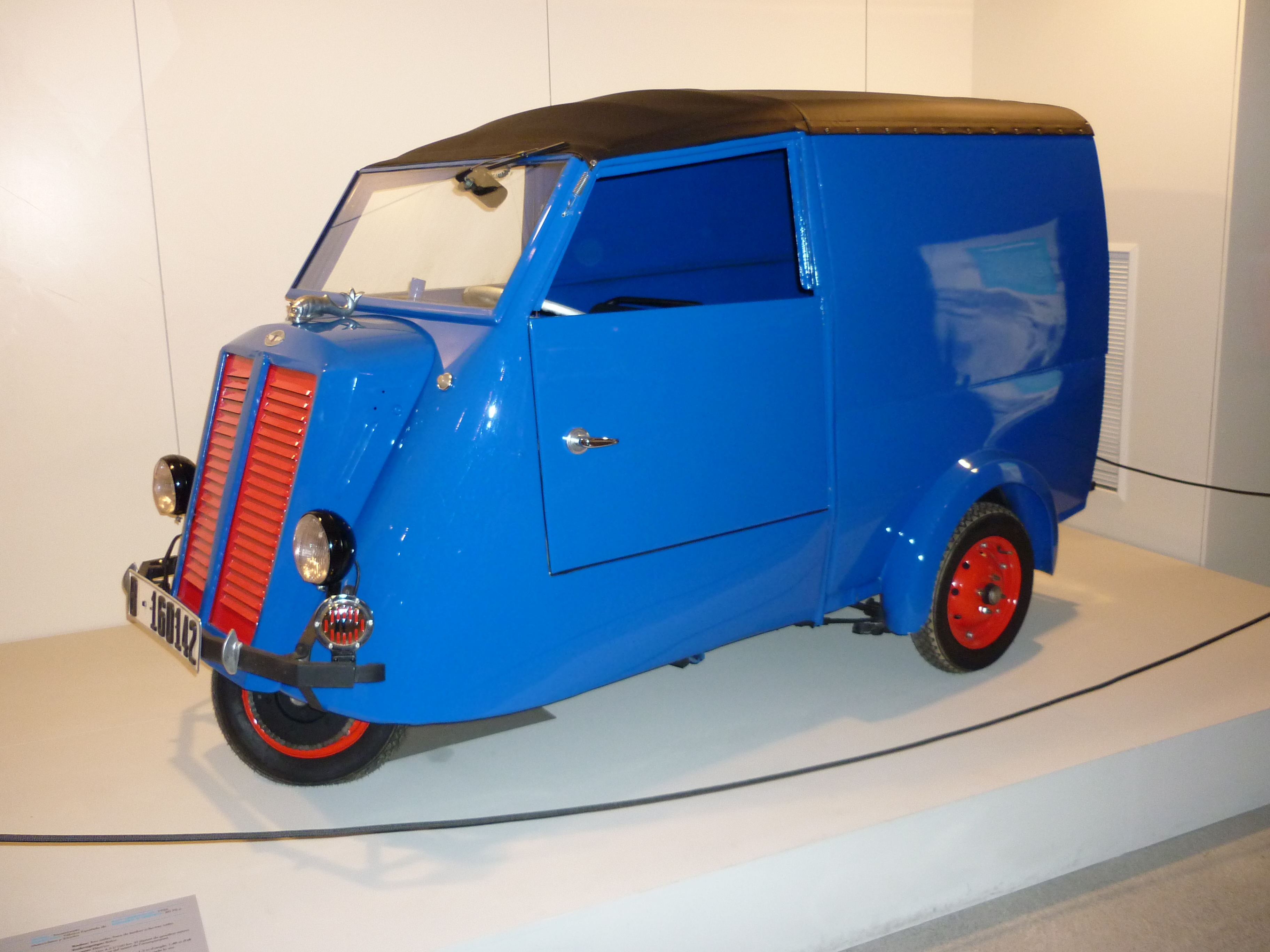 Delfin Tricamioneta (1956), made in Barcelona (Catalonia)